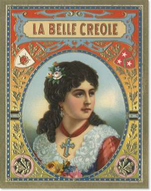 Lithograph cigar box label, "La Belle Creole" . Brand manufacuted by Hernsheim cigar factory, Magazine Street, New Orleans.